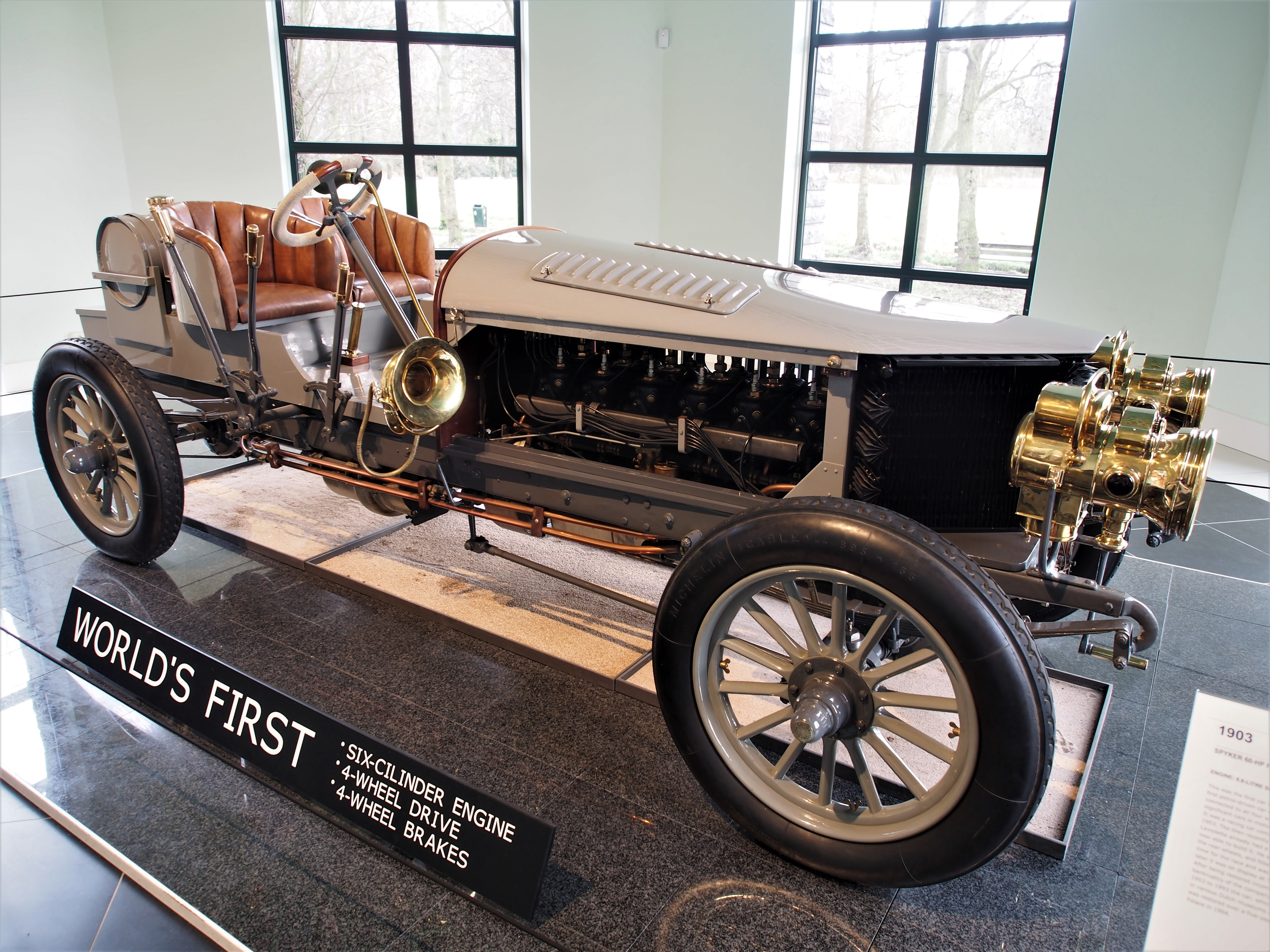 1903 Spyker 60HP Four Wheel Drive Racing Car photographed at the Louwman museum.